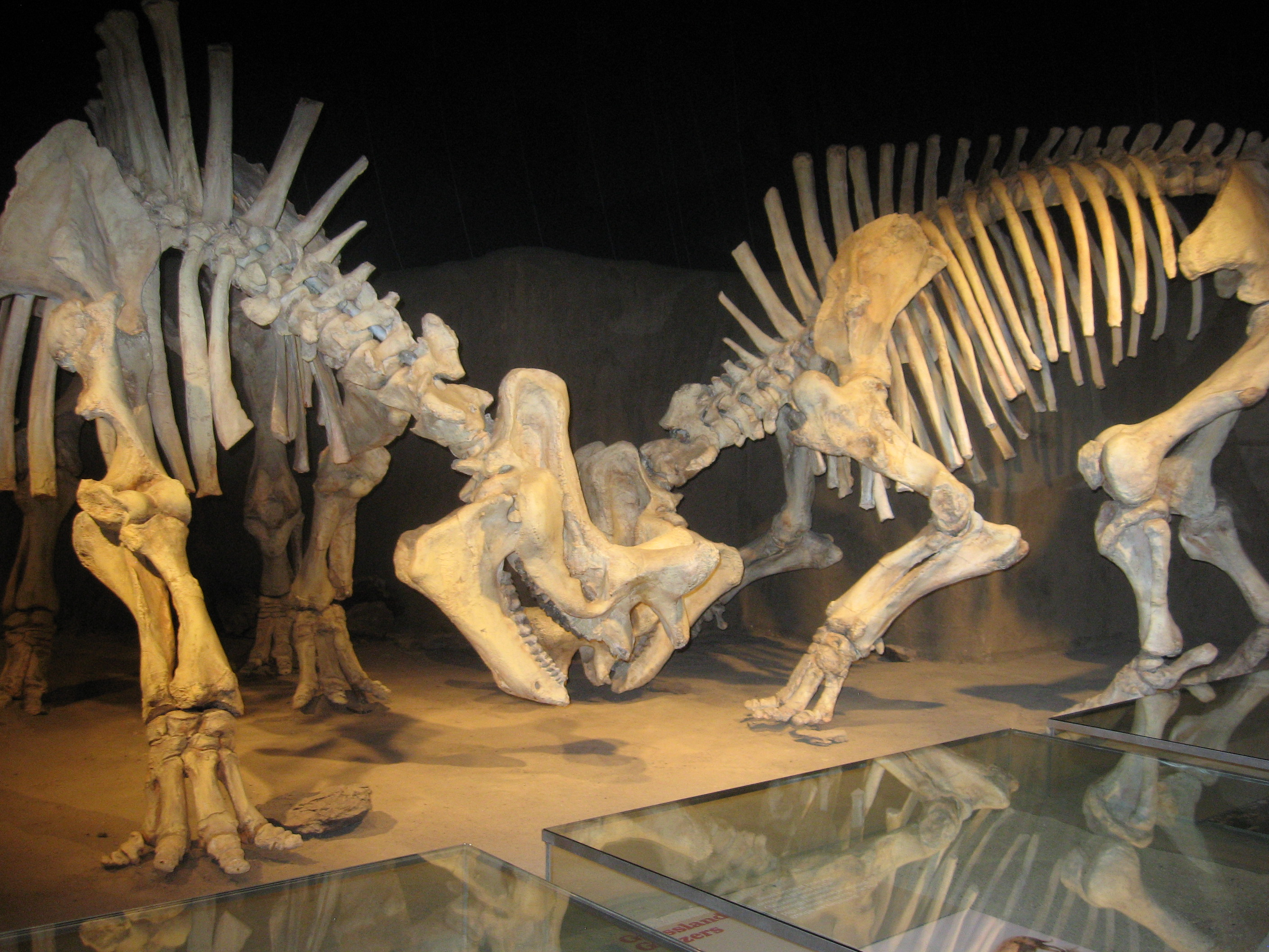 Two Brontotheres duel at the Royal Tyrrell Museum of Paleontology.